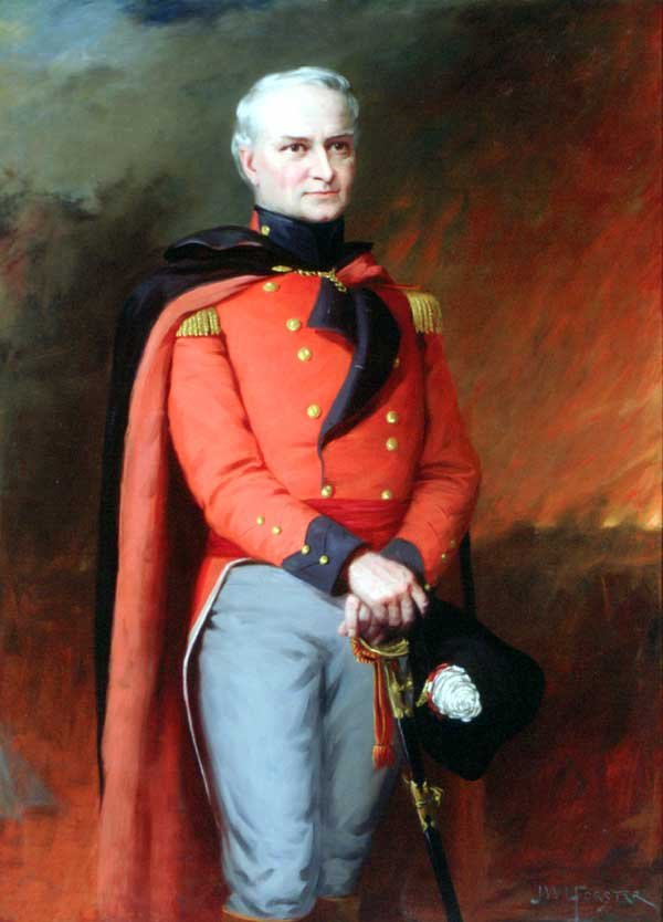 Æneas Shaw Artist: FORSTER, John Wycliffe Lowes (J.W.L) Title: Major-General The Hon. Aeneas Shaw [Member of Leg Council UC, 1794; Adjutant General, War of 1812] Date: c. 1902 Source: Archives of Ontario